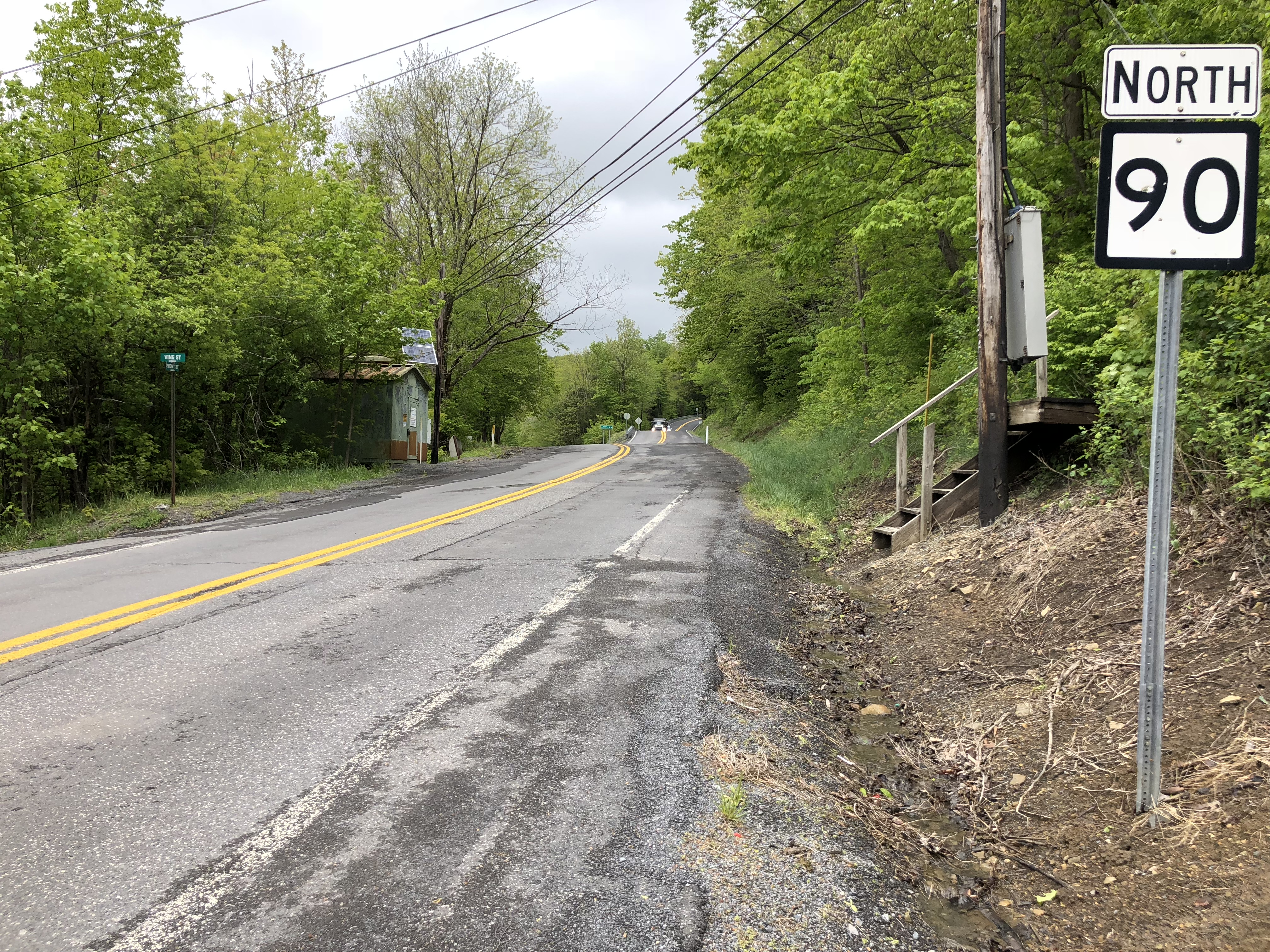 View north along West Virginia State Route 90 (Front Street) at Vine Street in Bayard, Grant County, West Virginia